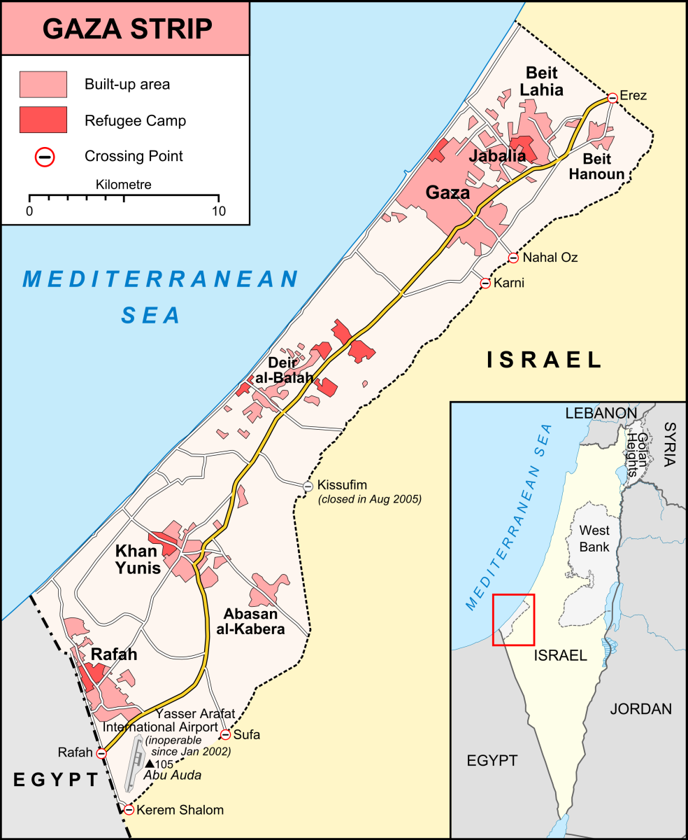 Map of Gaza Strip, Stand December 2008